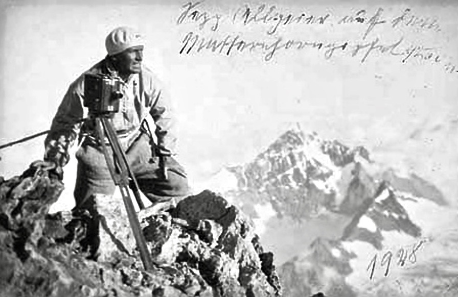 The German cinematographer Sepp Allgeier (1895–1968) filming a scene for the movie Struggle for the Matterhorn in 1927/28, written by Arnold Fanck (1889–1974) and Nunzio Malasomma (1894–1974) starring Luis Trenker (1892–1990). It was a special challenge to transport the whole equipment to the summit. A stative at that time weighed about 20 kg, a camera about 10 kg. – The handwritten text in German language reads: Sepp Allgeier at Matterhorn Summit 1928.